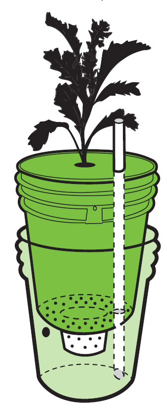 Self-watering-container